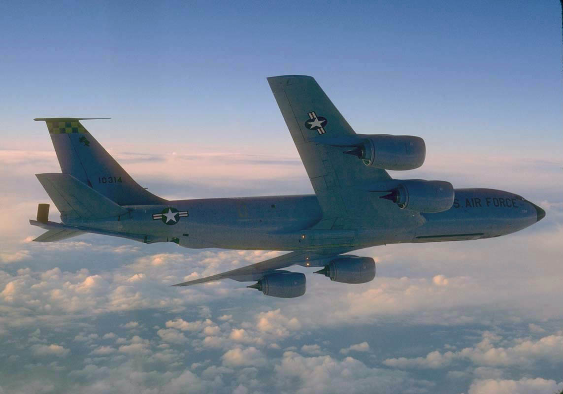 The KC-135 Stratotanker's primary mission is to refuel long-range bombers. It also provides aerial refueling support to Air Force, Navy, Marine Corps and allied aircraft. Four turbojets, mounted under wings swept 35 degrees, power the KC-135. Nearly all internal fuel can be pumped through the tanker's flying boom, the KC-135's primary fuel transfer method. A special shuttlecock-shaped drogue, attached to and trailed behind the flying boom, is used to refuel aircraft fitted with probes. An operator stationed in the rear of the plane controls the boom. A cargo deck above the refueling system holds passengers or cargo. Depending on fuel storage configuration, the KC-135 can carry up to 83,000 pounds (37,350 kilograms) of cargo. (U.S. Air Force photo by Master Sgt. Dave Nolan)